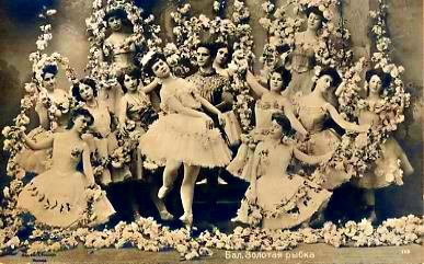 Photo of unknown dancers in Alexander Gorsky's revival of the composer Ludwig Minkus's ballet "Le Poisson doré"